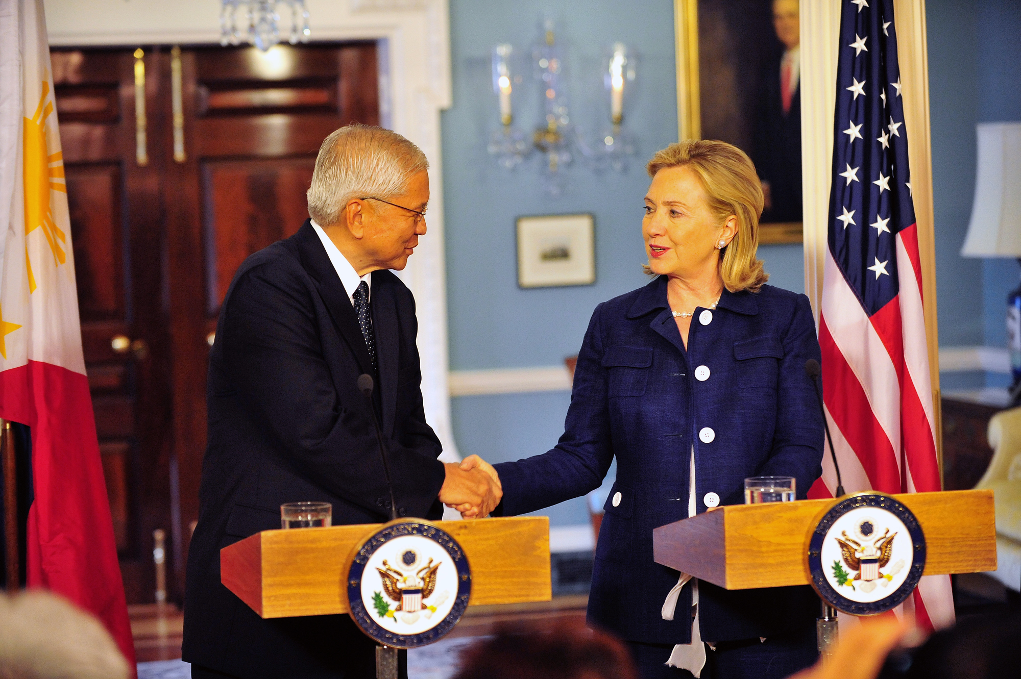 U.S. Secretary of State Hillary Rodham Clinton shakes hands with Philippine Secretary of Foreign Affairs Albert del Rosario after their bilateral meeting at the U.S. Department of State in Washington, D.C., on June 23, 2011. [State Department photo/ Public Domain]